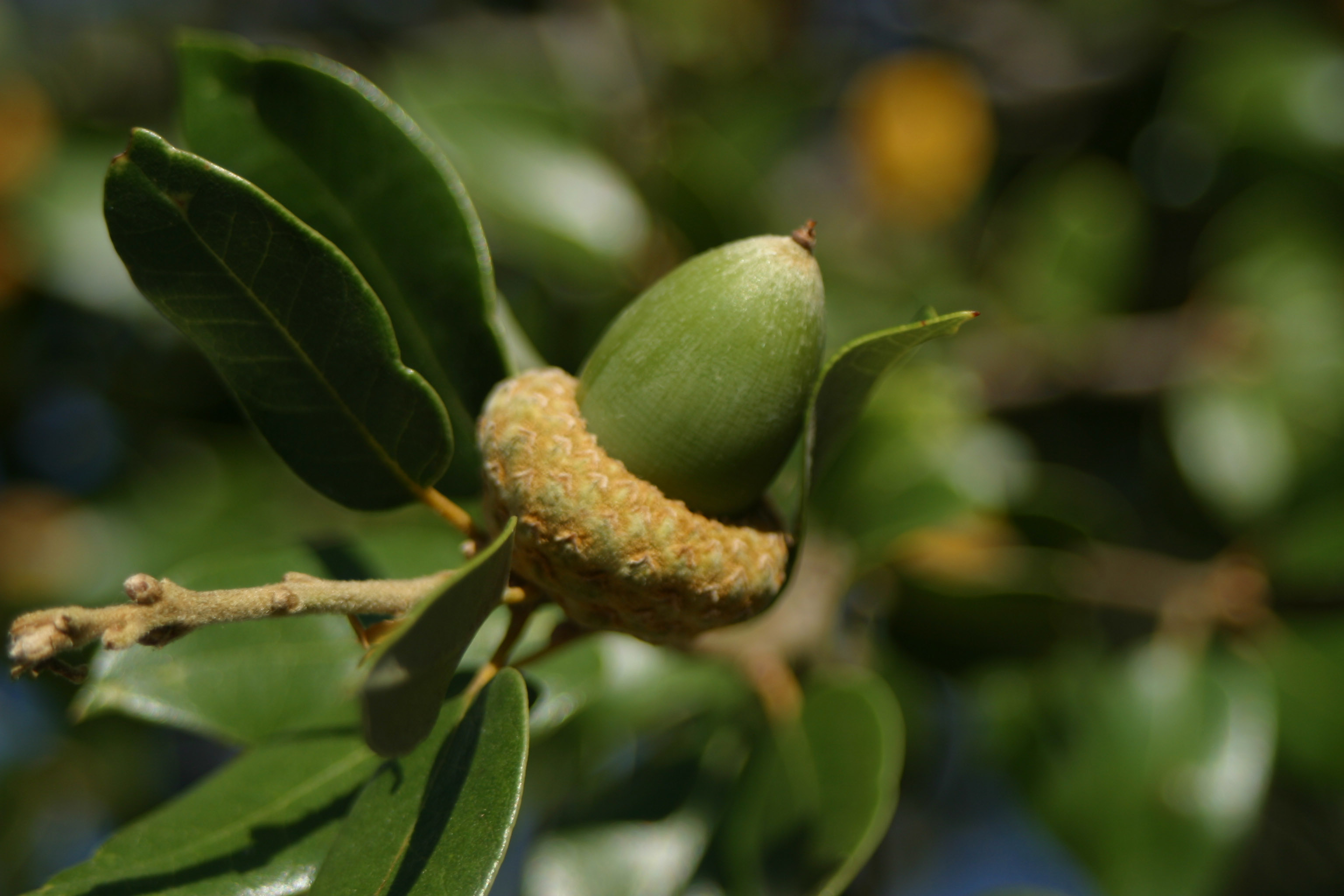 Quercus chrysolepis acorn. Roaring River Falls, Cedar Grove, Kings Canyon National Park, Fresno Co., California, USA.